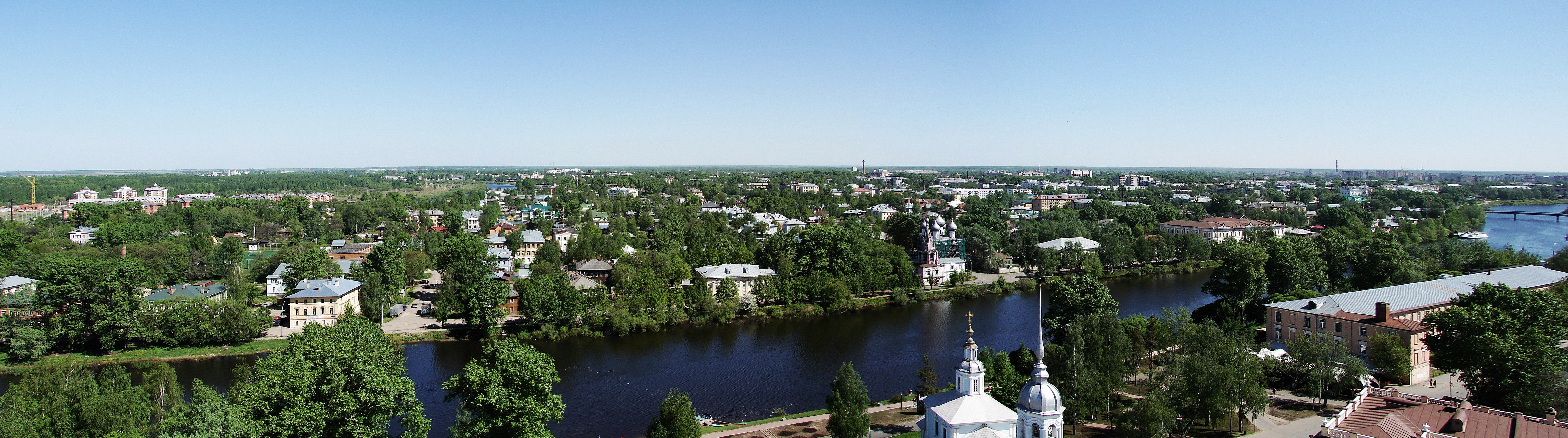 Russia, Vologda, Panoramic view